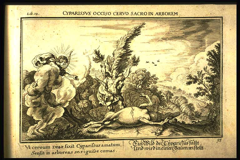 Apollo and Cyparissus. Engraving by Bauer for a 1703 edition of Ovid's Metamorphoses Book X, 109-142.